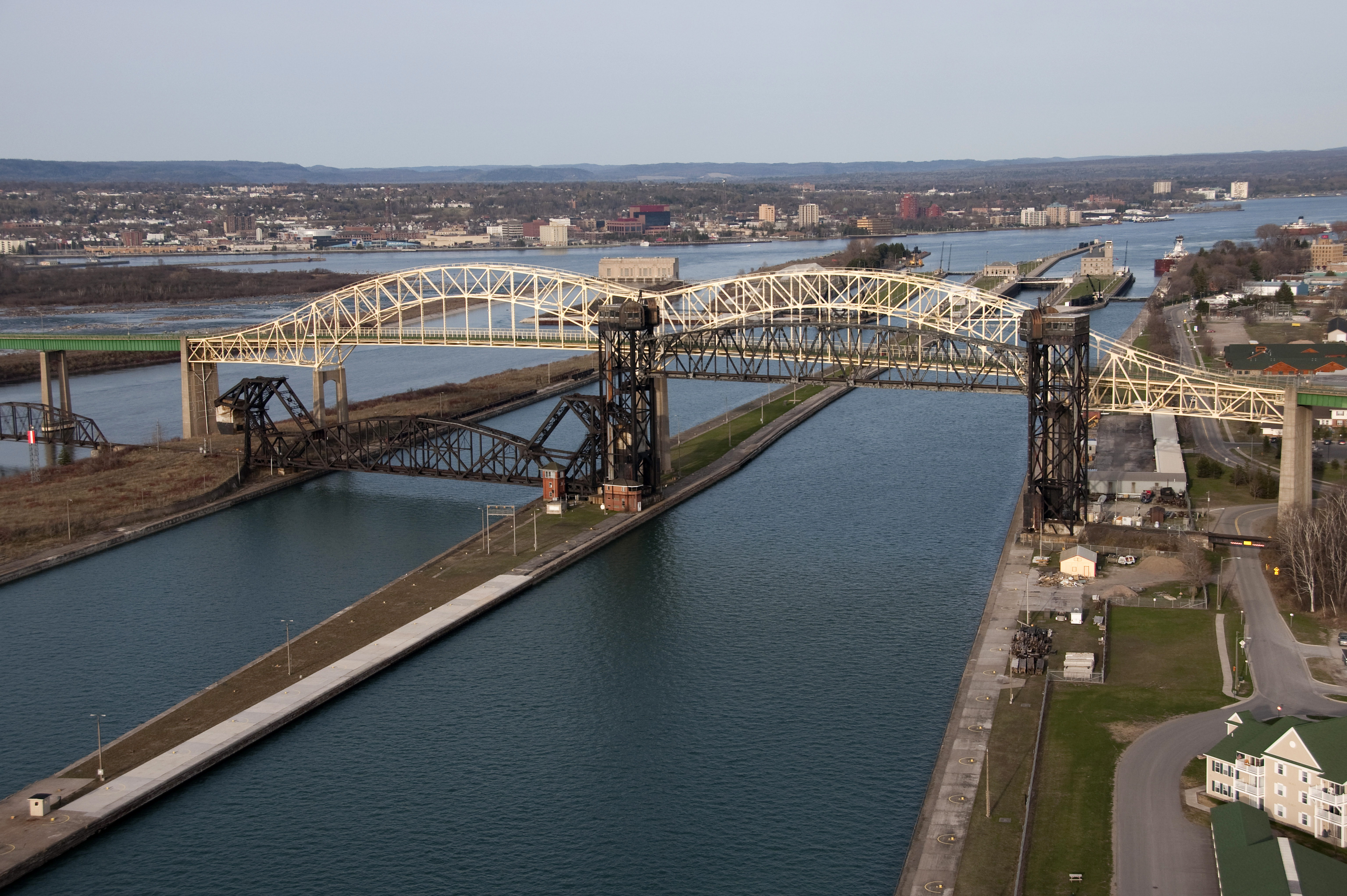 The Sault Ste. Marie International Bridge over the Soo Locks, Sault Ste. Marie, Michigan, USA. The parallel railroad bridge is in front of the International Bridge, with one span raised.